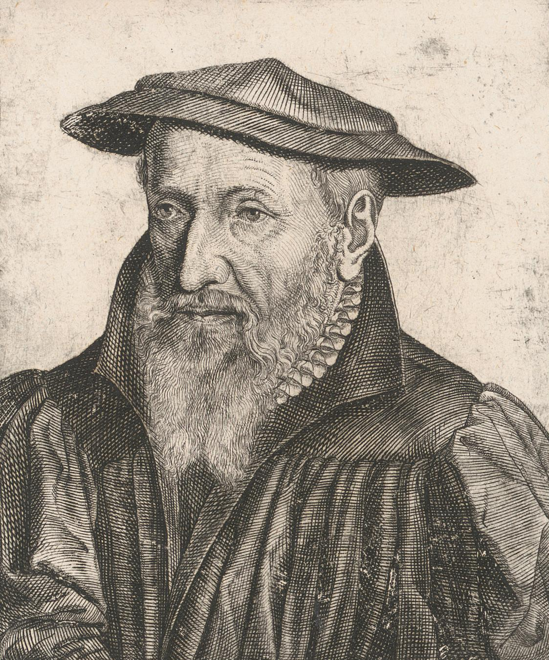 Rudolf Gwalther] (1519–1586) was a Reformed pastor and Protestant reformer who succeeded Heinrich Bullinger as Antistes of the Zurich church. From: Meyer, Dietrich: Rodolphus Gualtherus : Ecclesiae Tigurinae Pastor. [Zürich] : [Verlag nicht ermittelbar], [circa 1605]. Zentralbibliothek Zürich, GRA 1.1114, / Public Domain Mark